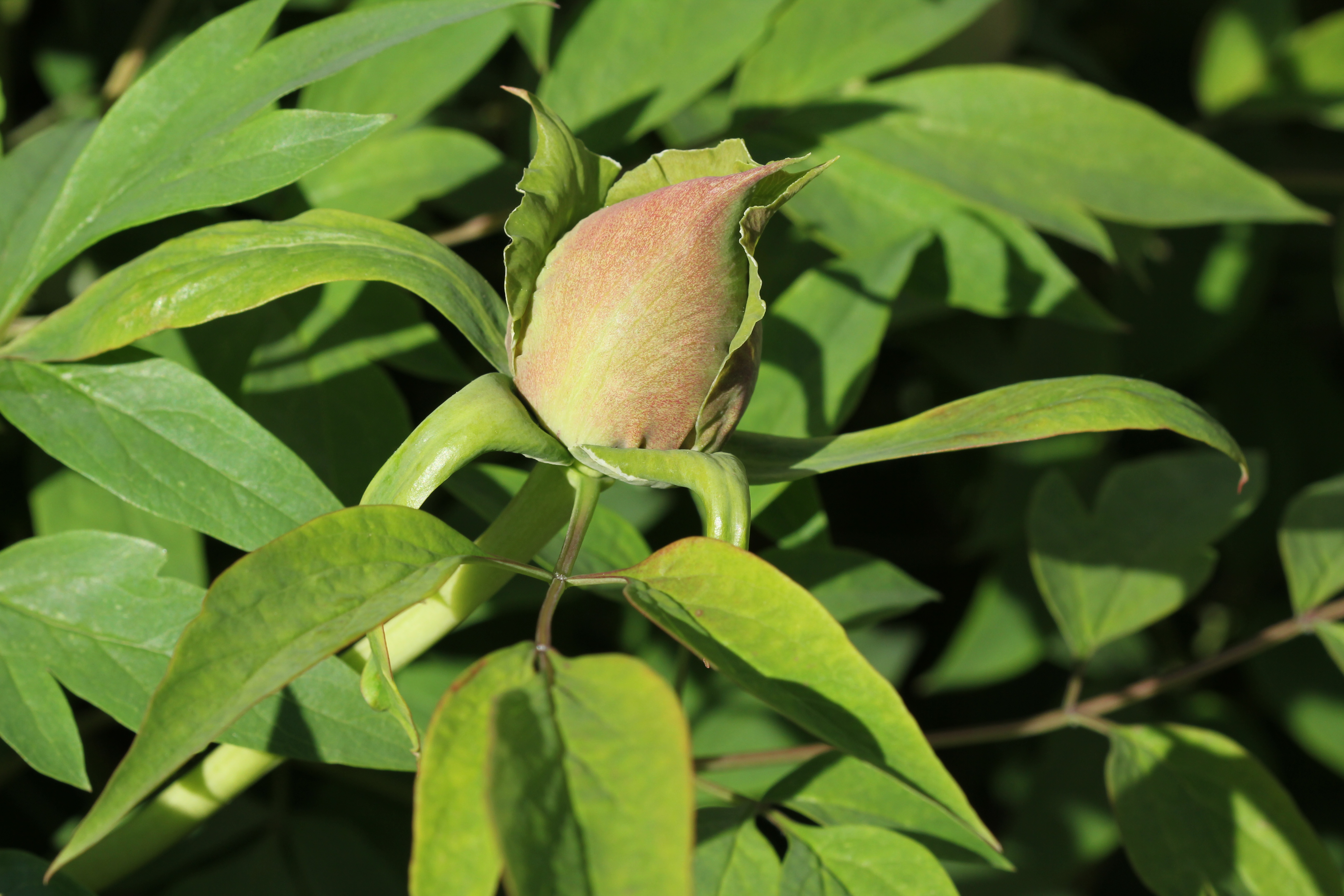 Rock's tree peony (Paeonia rockii), the bud. The plant is grown up in a garden. Ukraine.